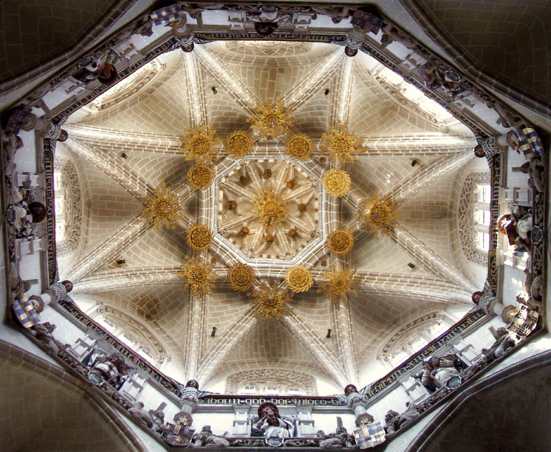 Cimborrio de la Catedral del Salvador (La Seo) de Zaragoza (Aragón, España)